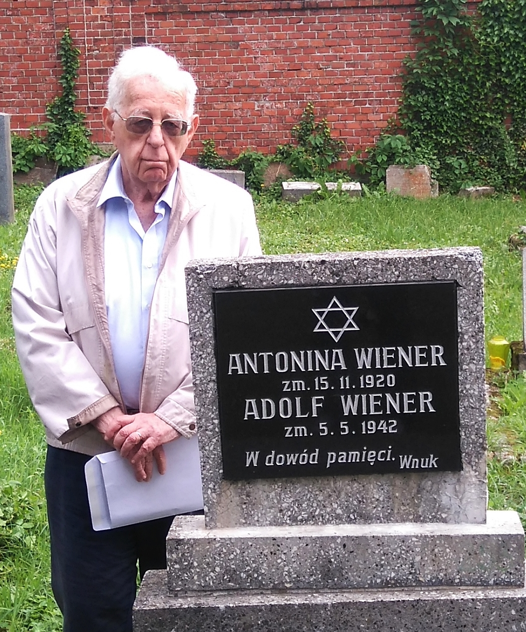 Shlomo Avineri at the gravestone of the grandparents in the Jewish cemetery in Bielsko-Biala, Poland